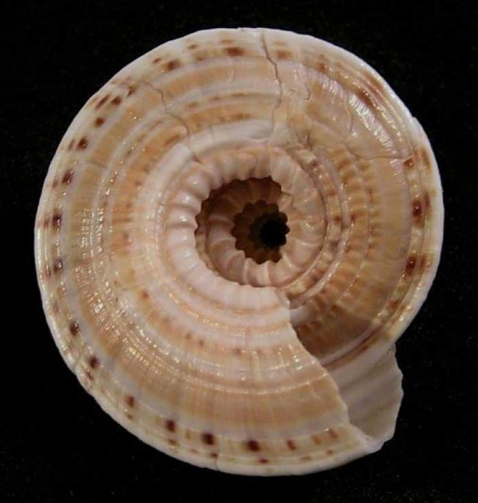 Photograph of the underside of seashell Architectonica nobilis Röding, 1798[1] / Origin of image: Own collection. Brazil. Off Vittoria. Espiritu Santo.